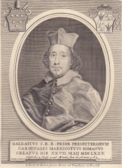 Cardinal Galeazzo Marescotti (1627-1726)